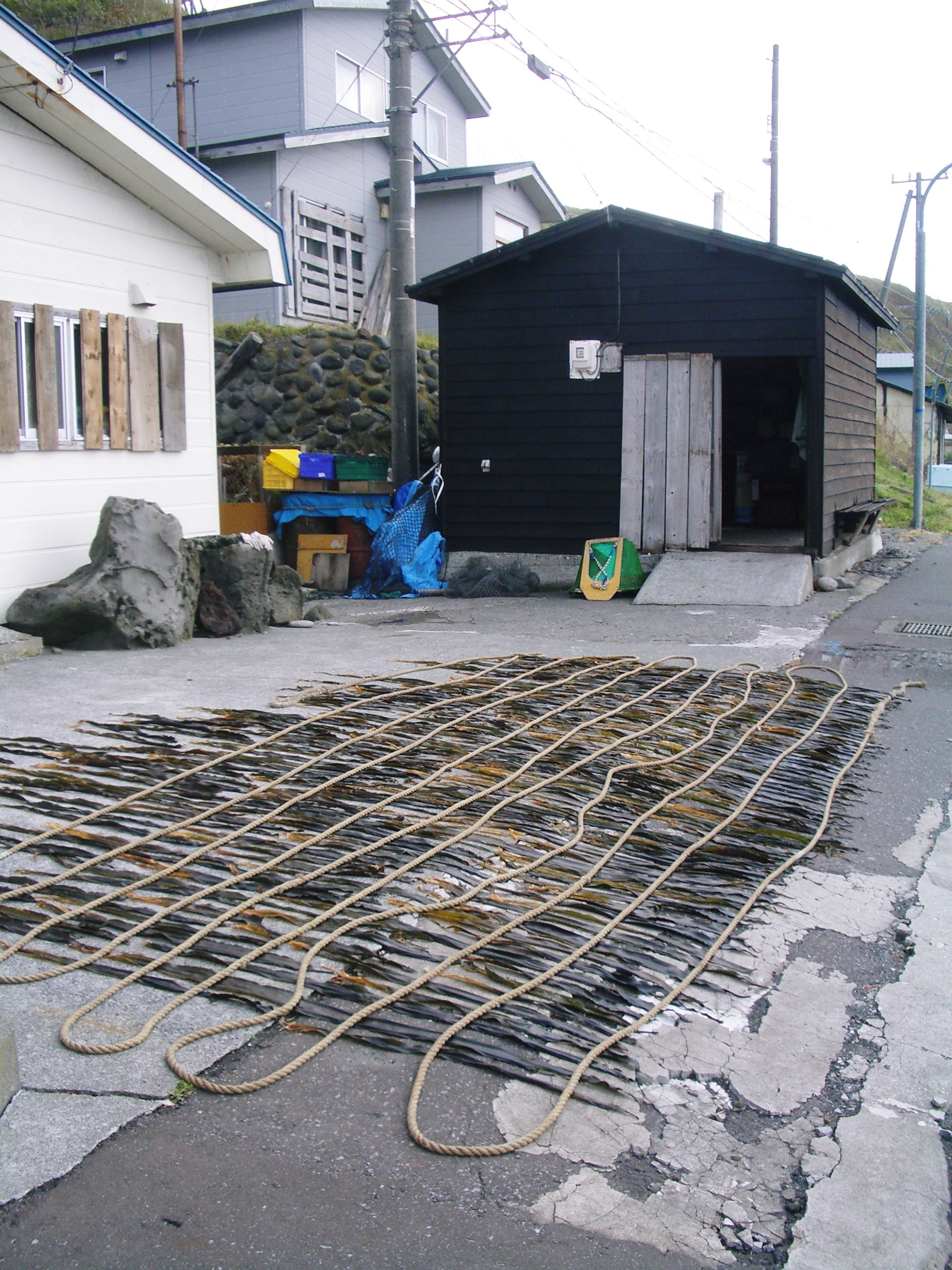 Drying seeweeds on a wayside at the Rishiri Island, Japan